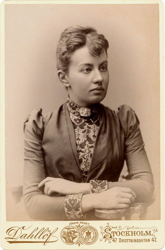 Sophie Kowalevski